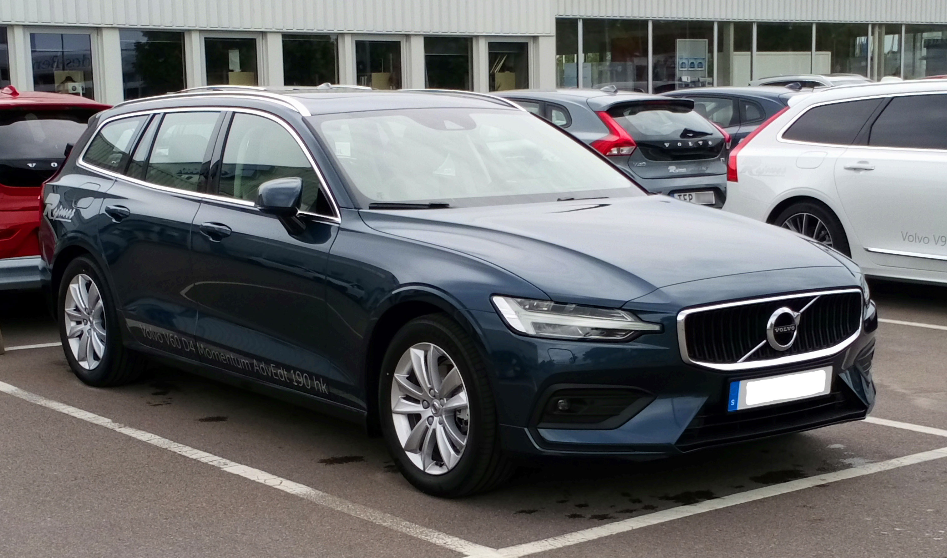 2018 Volvo V60 D4 Momentum